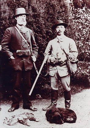 Portrait of Jean Charles Louis Tardif d'Hamonville (right) and his gamekeeper